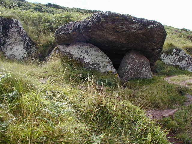 The Kings Quoit , Manorbier Bay